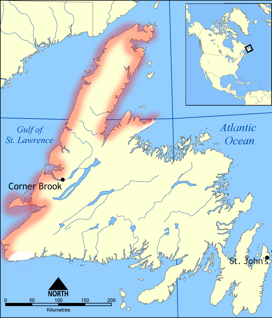 Map of Newfoundland, Canada, showing the Treaty Shore.